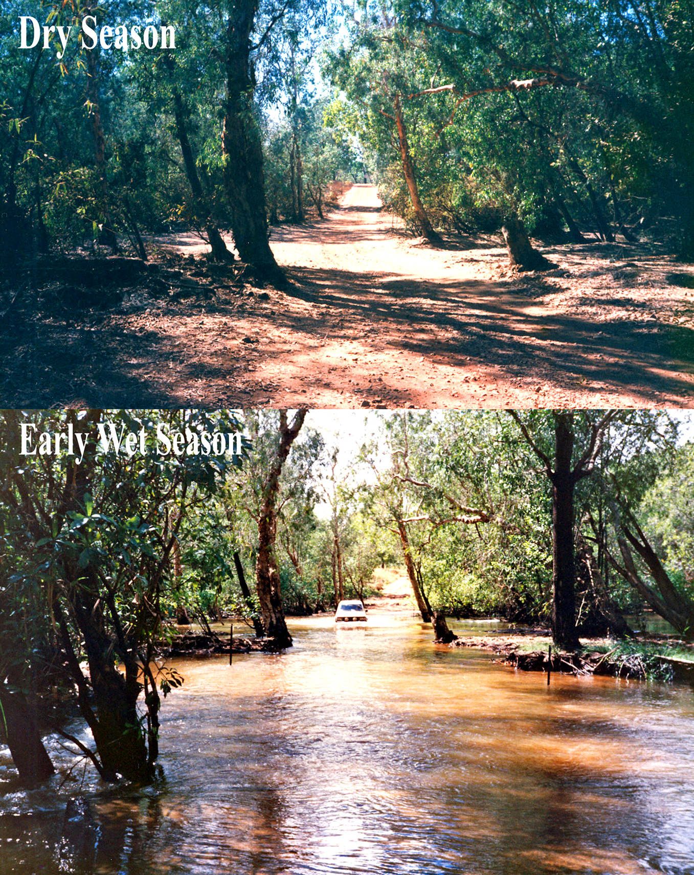 The Finnis River in Litchfield National Park and the changes it undergoes from the dry season to the wet season. By the end of the wet the water would be over the roof of this 4x4. Taken mid 1990.